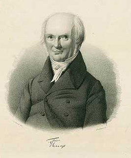 Frederik Thaarup